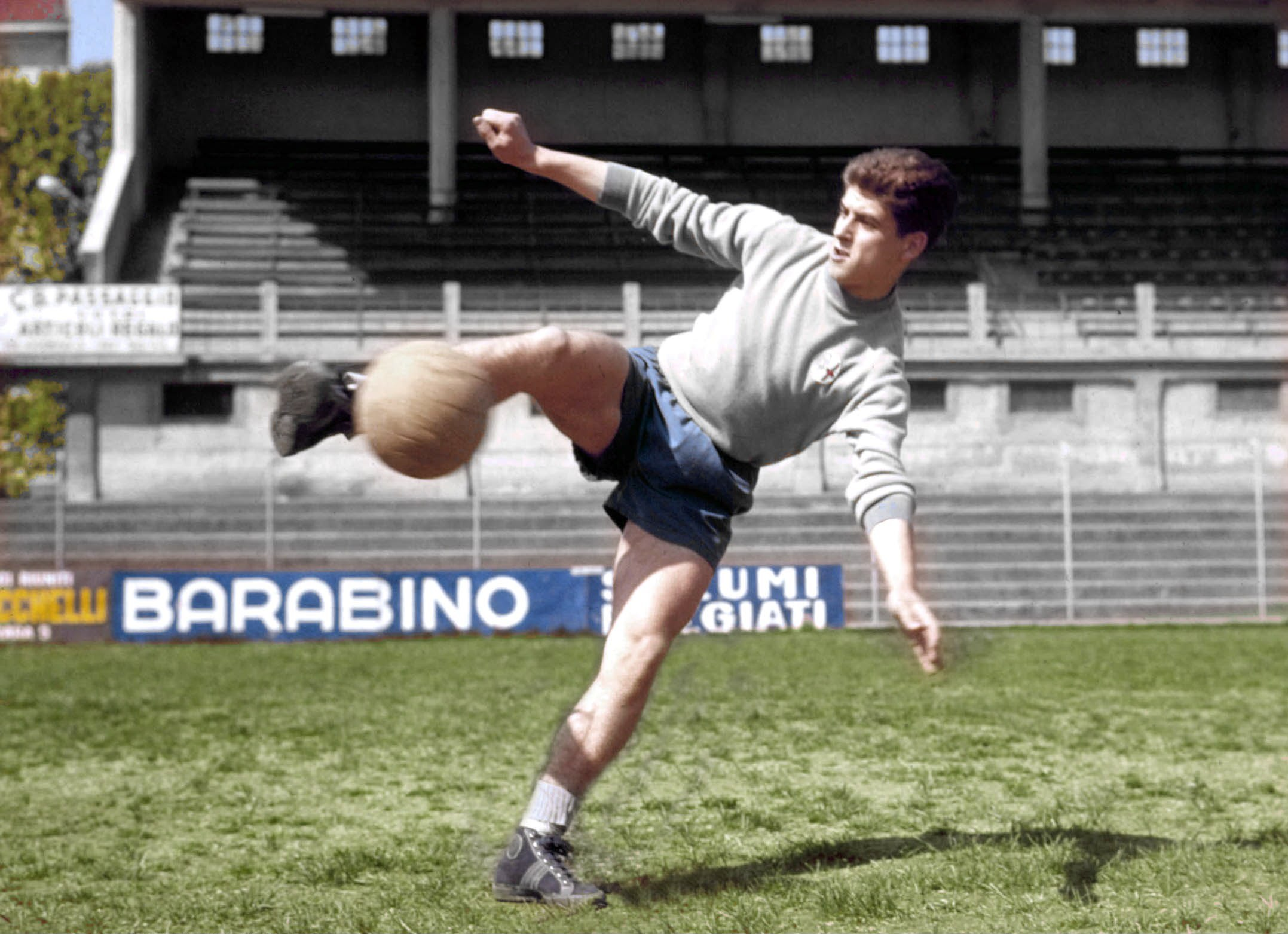 Italian footballer Gianni Rivera in training with U.S. Alessandria inside the Giuseppe Moccagatta Stadium in Alessandria, Italy. Ca. late 1950s and early 1960s.